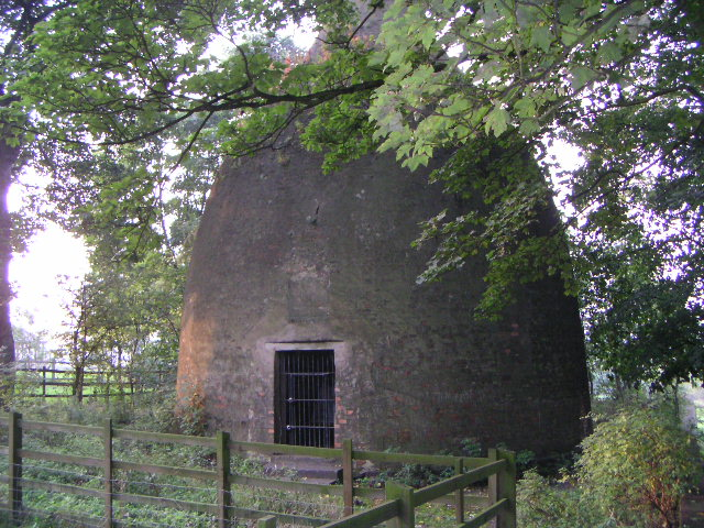 Waterloo Kiln. Waterloo Kiln was built in 1815. The site was home to Swinton Pottery, where the world famous Rockingham porcelain was made.